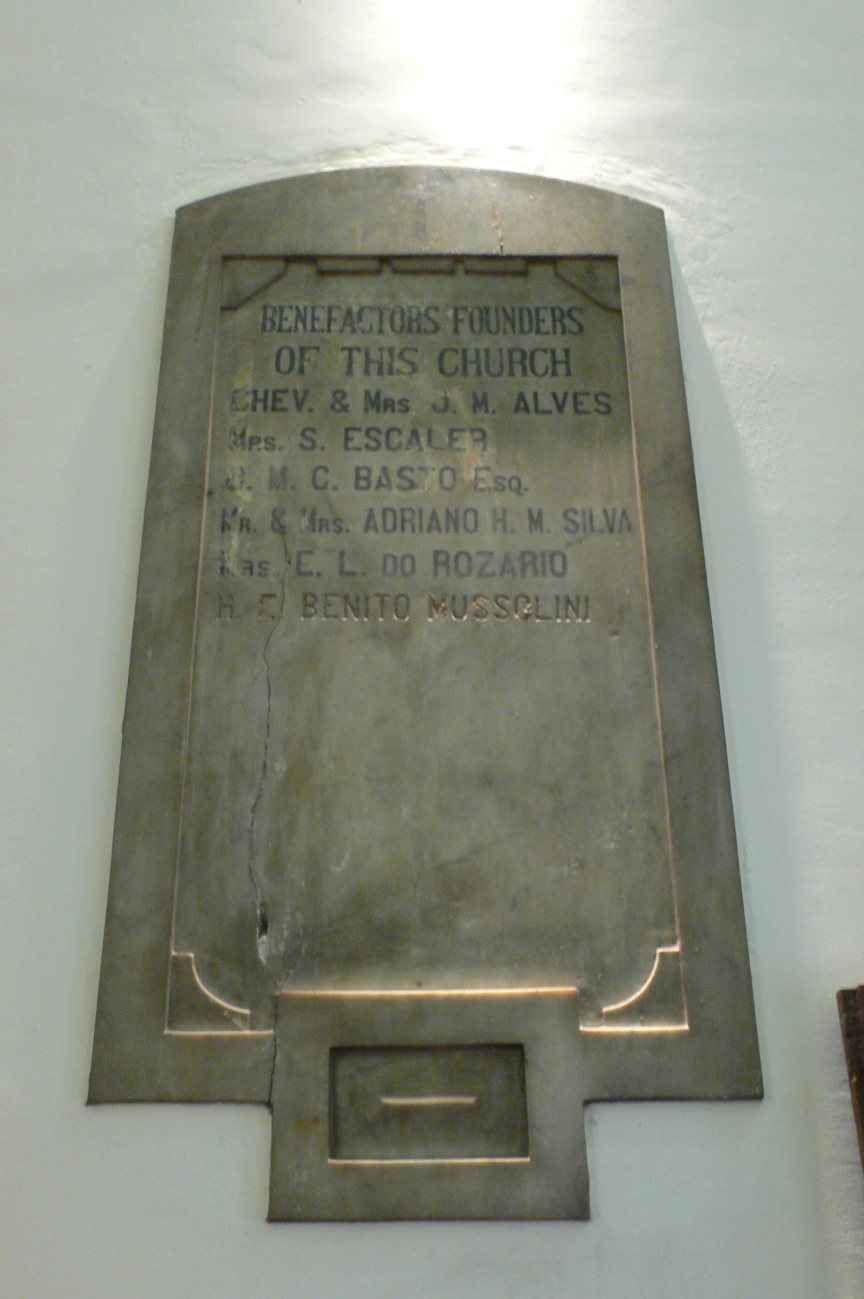 With unknown reason, the name of Benito Mussolini can be found on the founding benefactors list in St. Theresa's Church, Hong Kong ,which typeface of that line is different from the others.